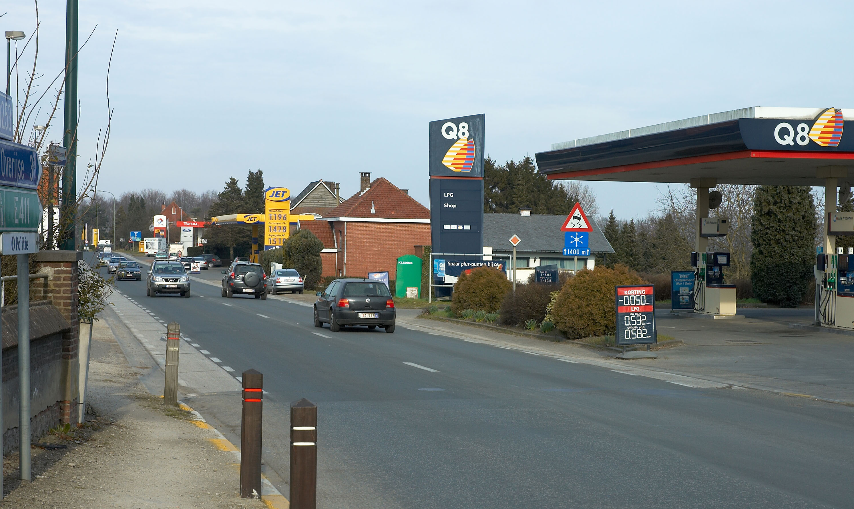 Petrol stations in Maleizen (Overijse), Belgium, looking direction NE.